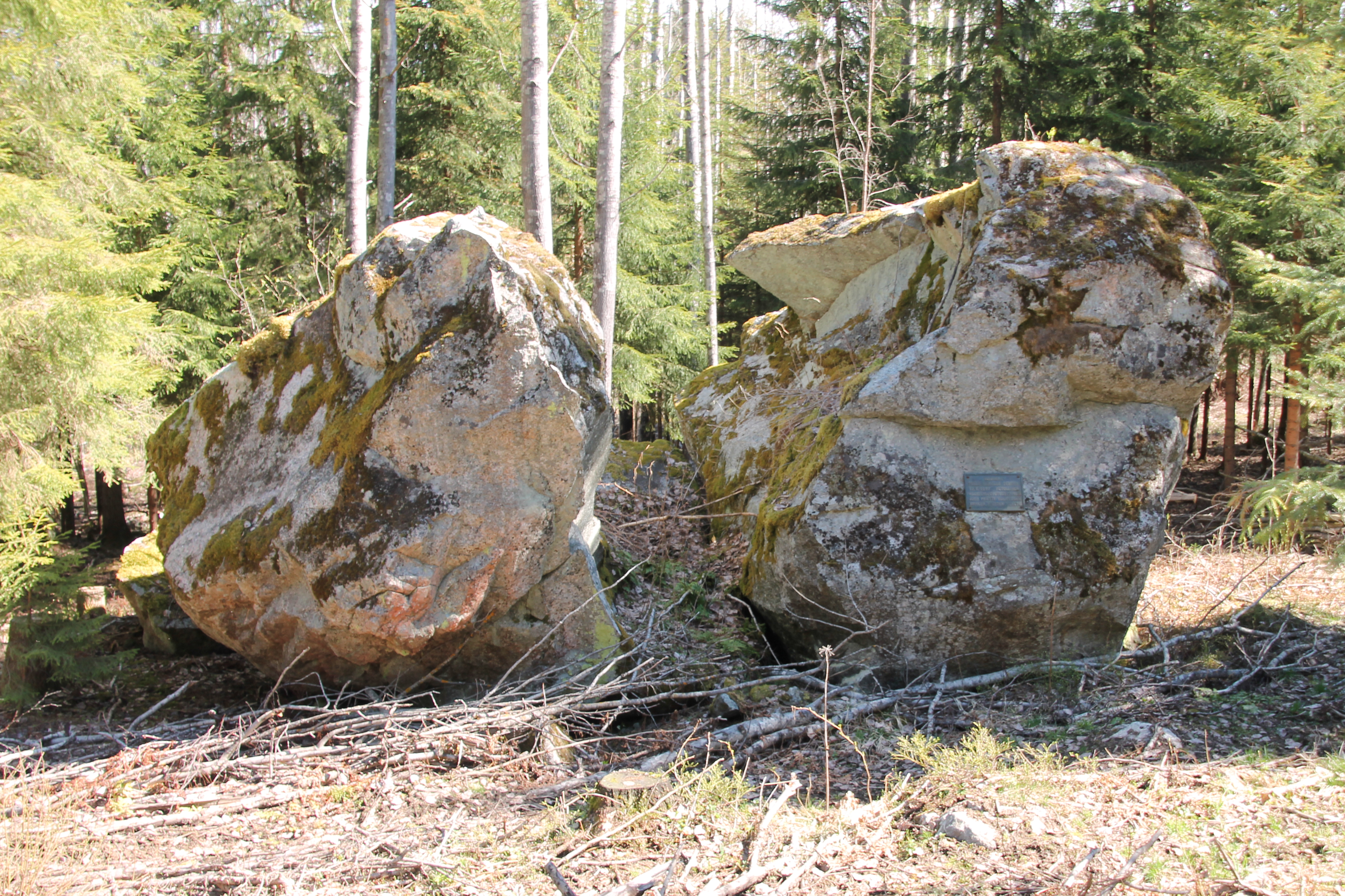 Cudgel war memoriam stone in Padasjoki.